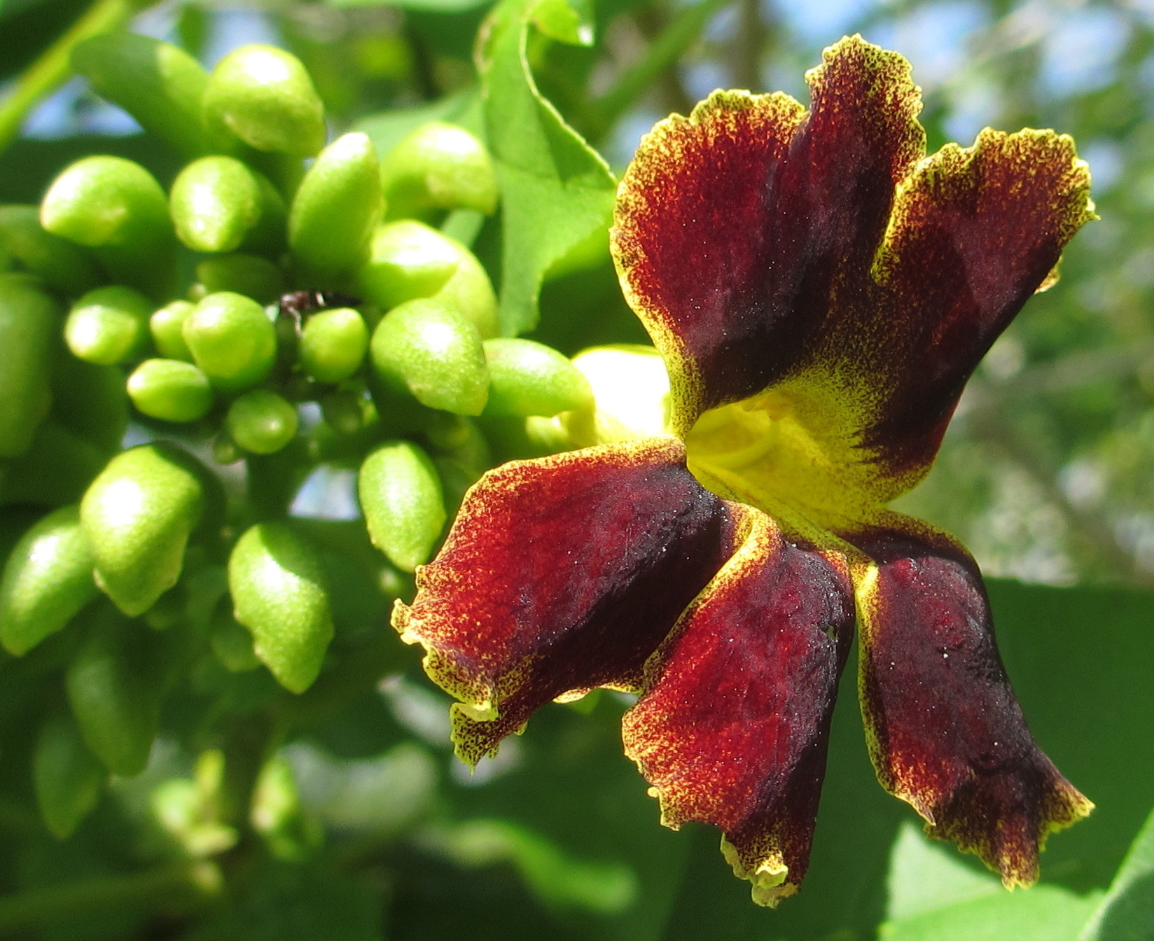 A flower of Markhamia zanzibarica (Bignoniaceae) close to Pemba town, northern Mozambique.